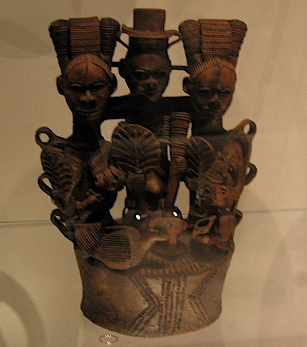 Igbo alter for a new yam festival, British museum.